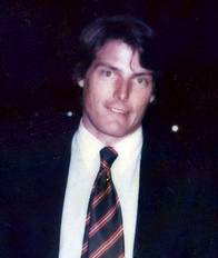 Amateur photo of Christopher Reeve